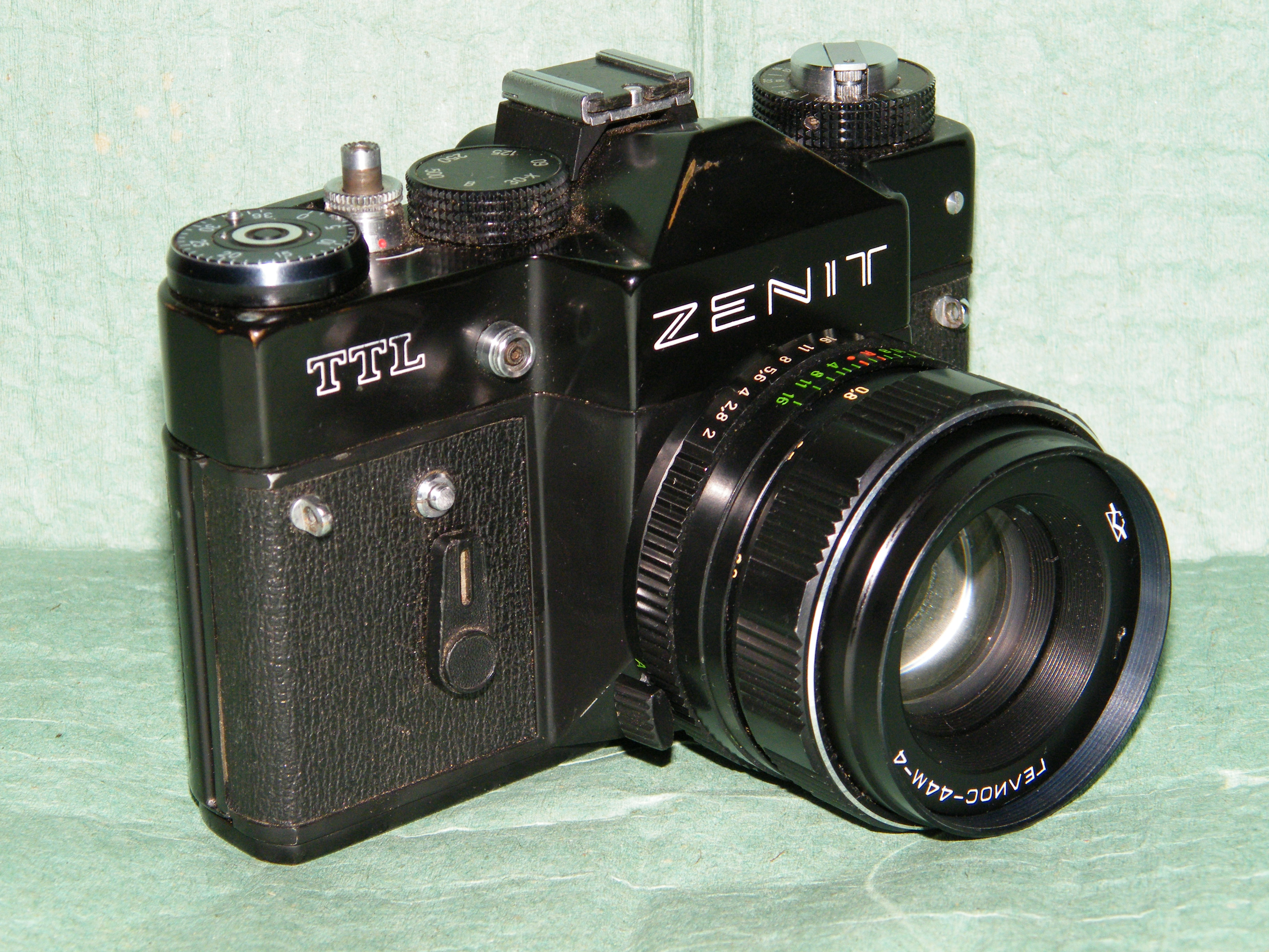 Zenit TTL